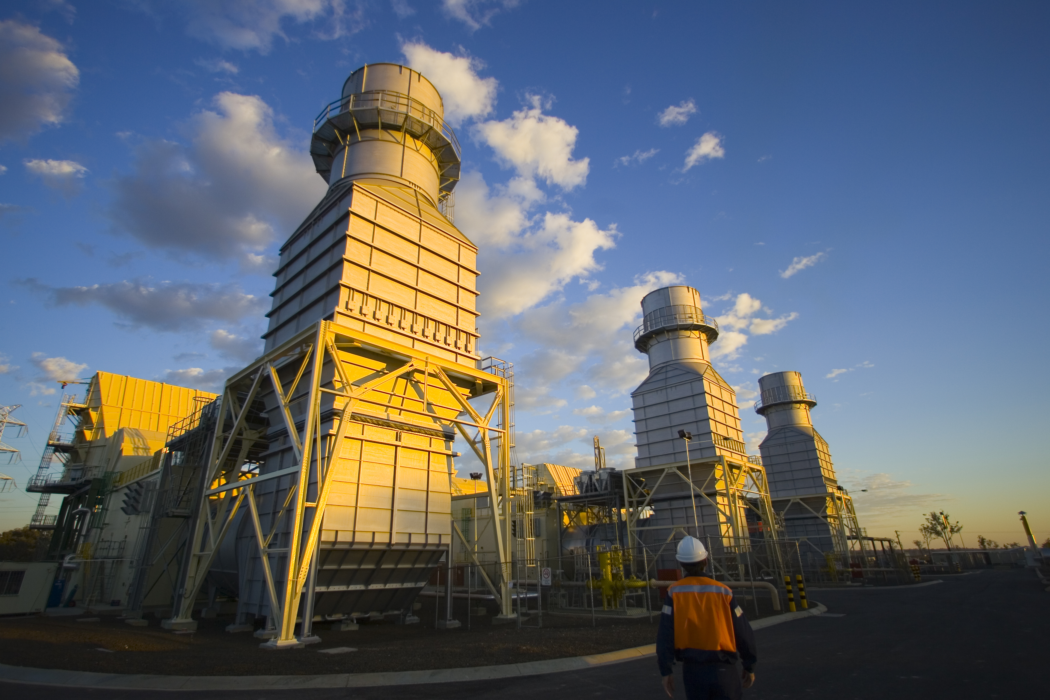 Natural Gas-fired power station in Victoria’s East Gippsland region